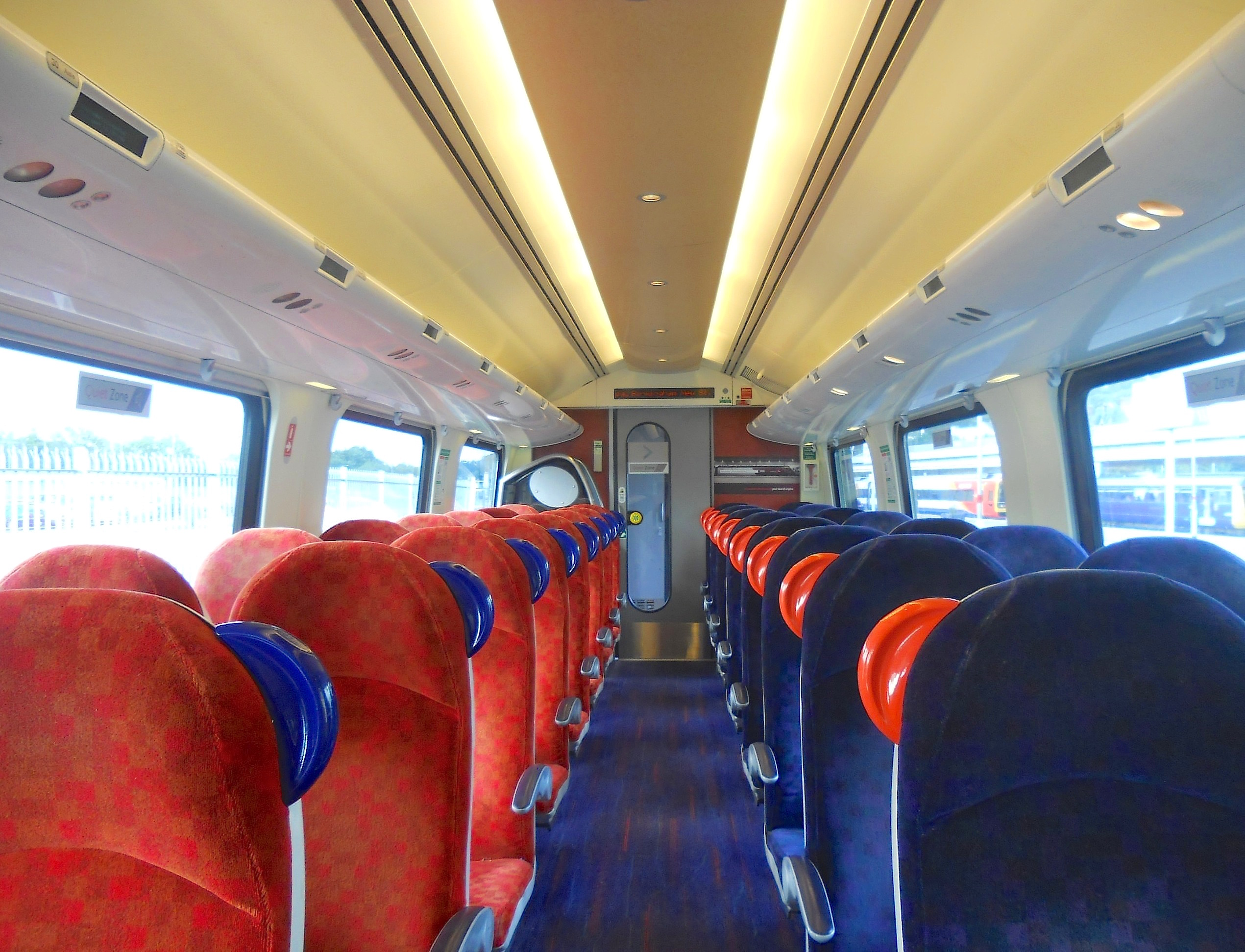 The interior of Standard Class from a Class 220